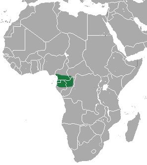 Long-footed Shrew (Crocidura crenata) range